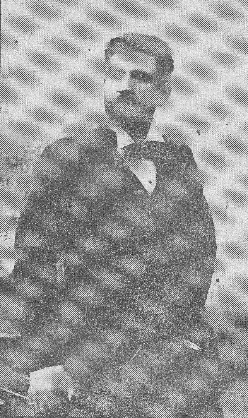 Itlian baritone, Lelio Casini (1865-1910)